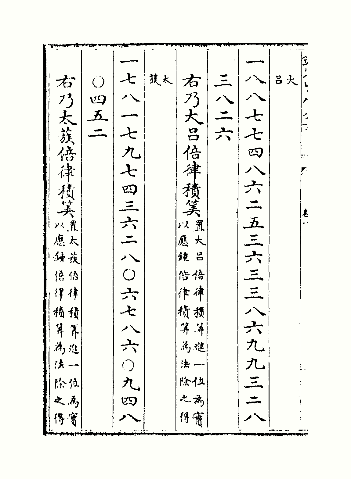 A New Theory of the Science of the Music Tones